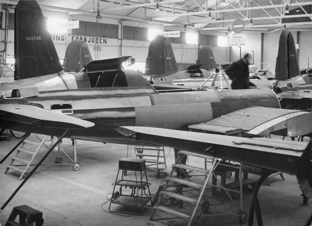 Assembly Halls with B 17-planes in Trollhättan.